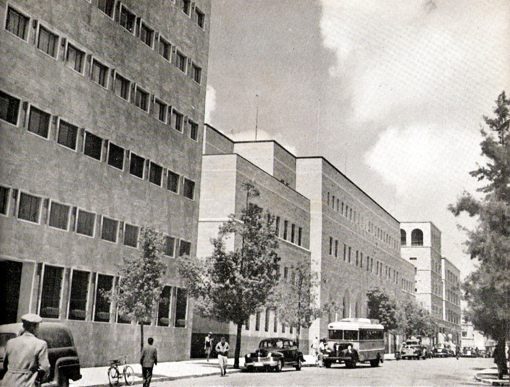 Jerusalem - Anglo-Palestine Bank and Central Post Office building in Jaffa Road.